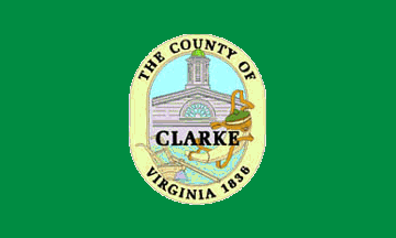 The official county flag of Clarke County, Virginia, consisting of the county seal on a green background. The county seal itself dates back from the mid-1980s.